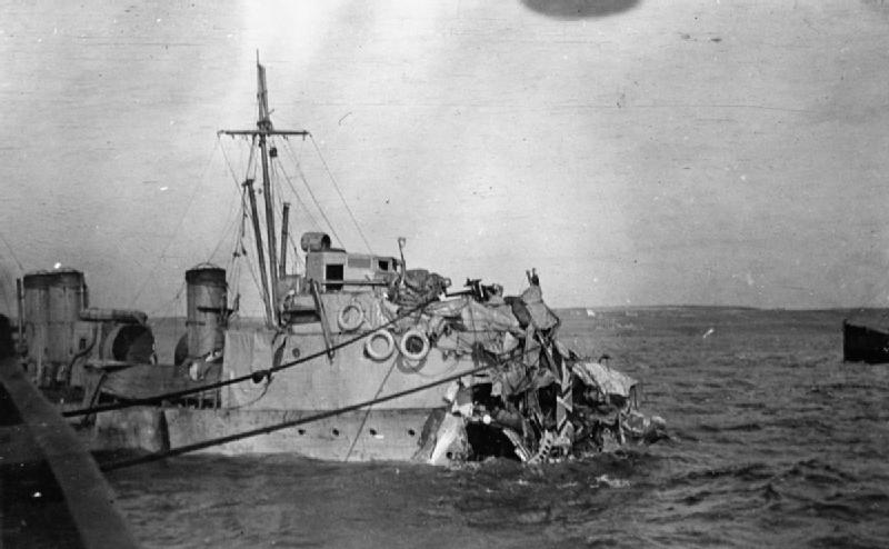 Photograph of British B class destroyer HMS ALBACORE with her bows blown off after hitting a mine. Note : See also British National Archives ADM137/3217 Damage to H.M.S. ALBACORE by mine